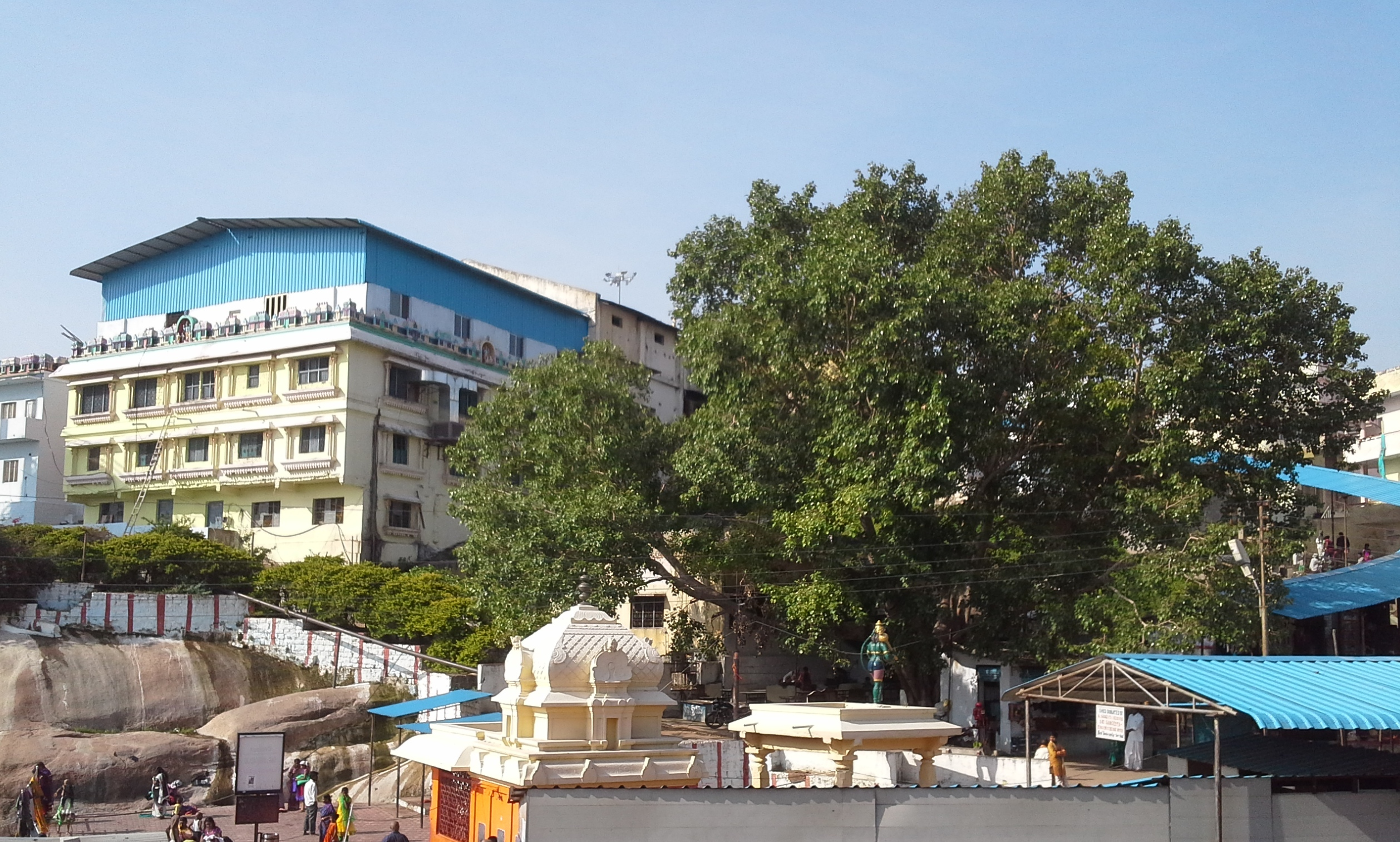 Choultries at Yadagirigutta temple